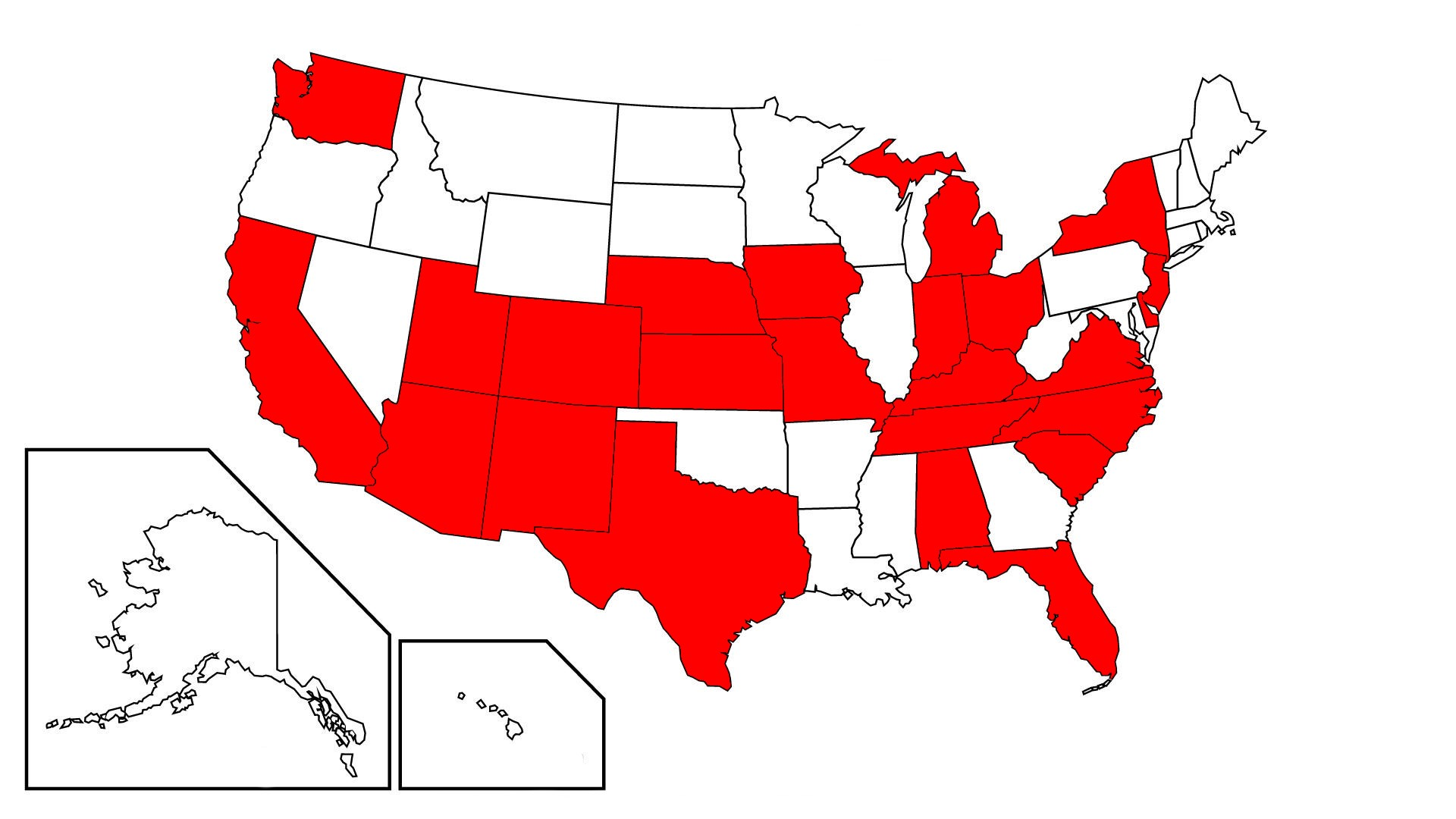 A map of the States which have members of Congress who are members of the Congressional Constitution Caucus as of the 115th Congress.